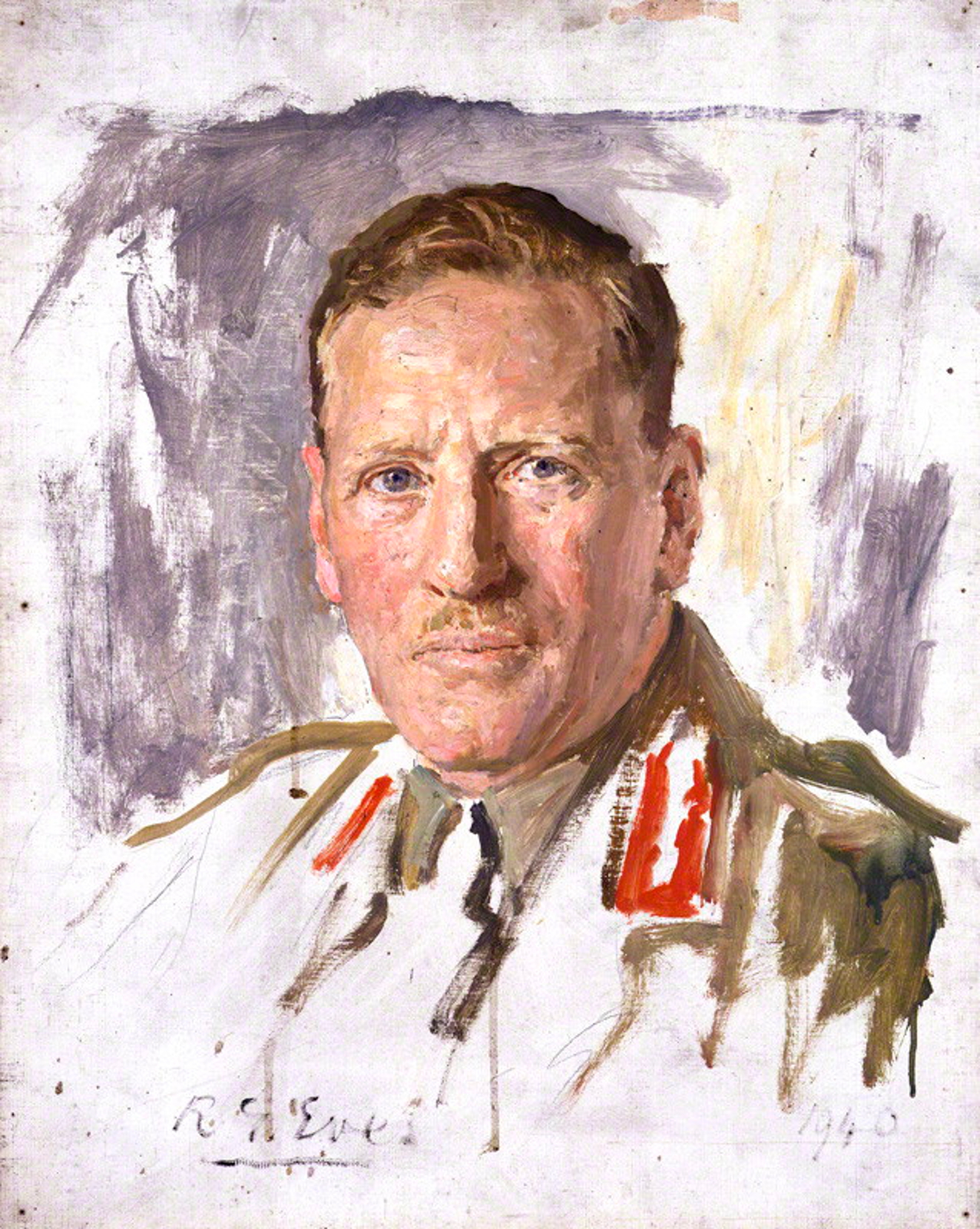 A portrait of Field Marshal Sir Claude John Eyre Auchinleck GCB GCIE CSI DSO OBE (21 June 1884 – 23 March 1981), who was Commander-in-Chief of the Indian Army in early 1941, followed by C-in-C of the Middle East theatre in July 1941. In June 1943 he was again appointed C-in-C India, responsible for the organisation of supply, maintenance and training for Slim's Fourteenth Army. After 1947 he became Supreme Commander of all British forces in India and Pakistan until late 1948.